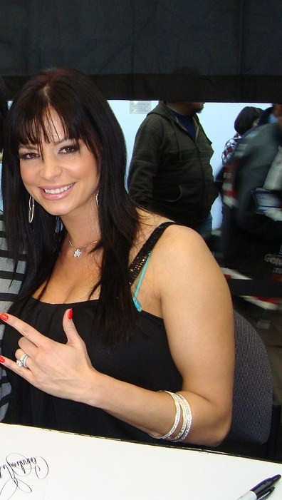 A cropped version of File:Candice Michelle and fan.jpg to remove the fan, and get a better view of professional wrestler Candice Michelle